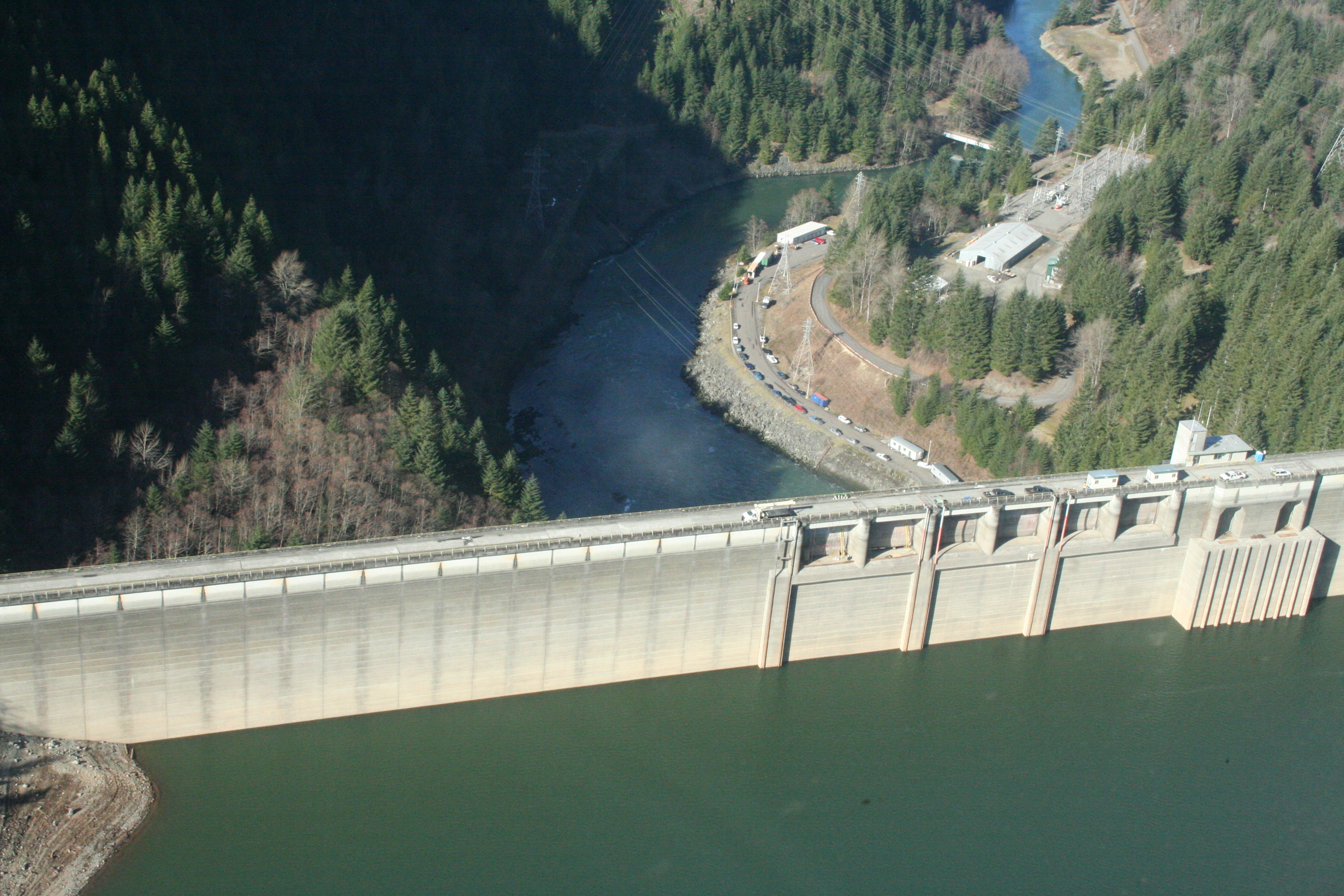 Aerial Photo of Detroit Dam taken in early February